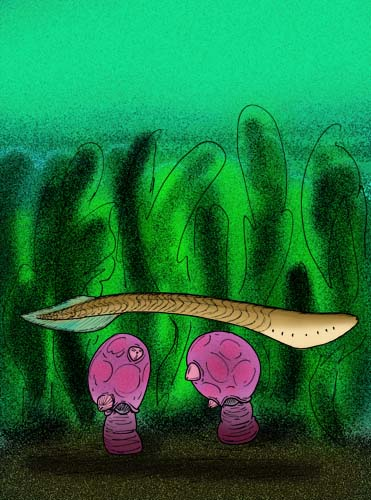 The chordate Cathaymyrus diacodexis, compared with the vetulocystid echinoderm, Vetulocystis catenata. From the Early Cambrian Chengjiang Fauna.